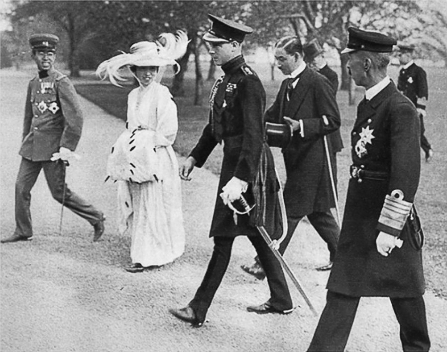 Japanese Empress Sadako with her son Crown Prince Hirohito and Edward VIII Prince of Wales, 1922